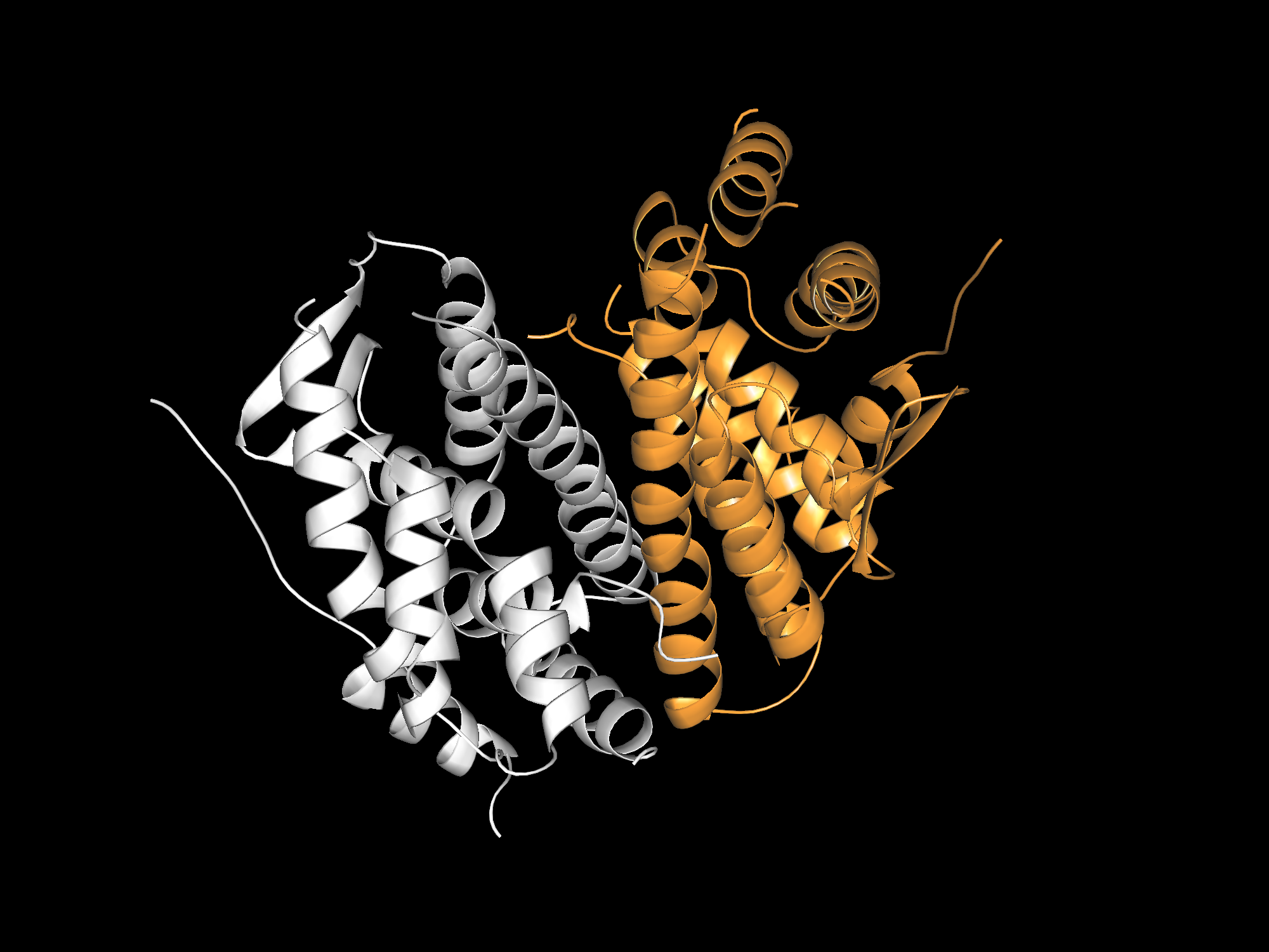 Structure of strogene receptor beta